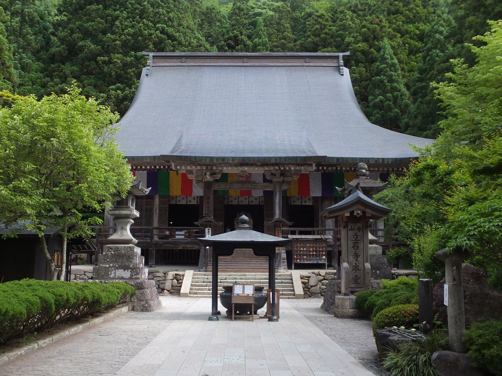 Konponchūdō (main hall) of Risshaku-ji temple (Yama-dera) in Yamagata-shi, Yamagata prefecture